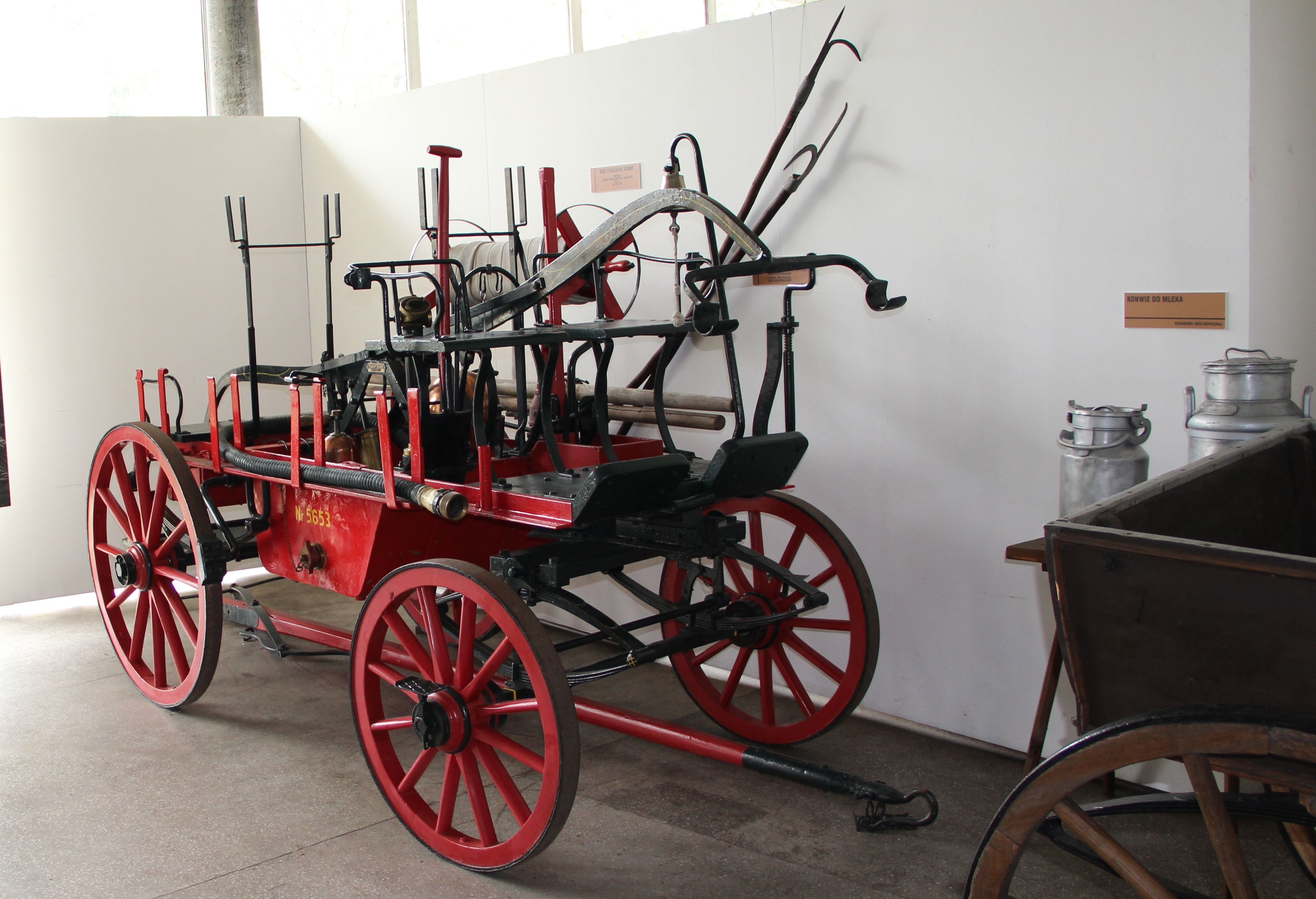 National Museum of Agriculture in Szreniawa, Historic fire fighting vehicle, Gustav Ewald, Kuestrin